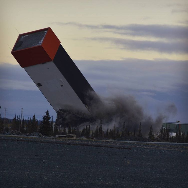 The collapse of Con Mine in Yellowknife